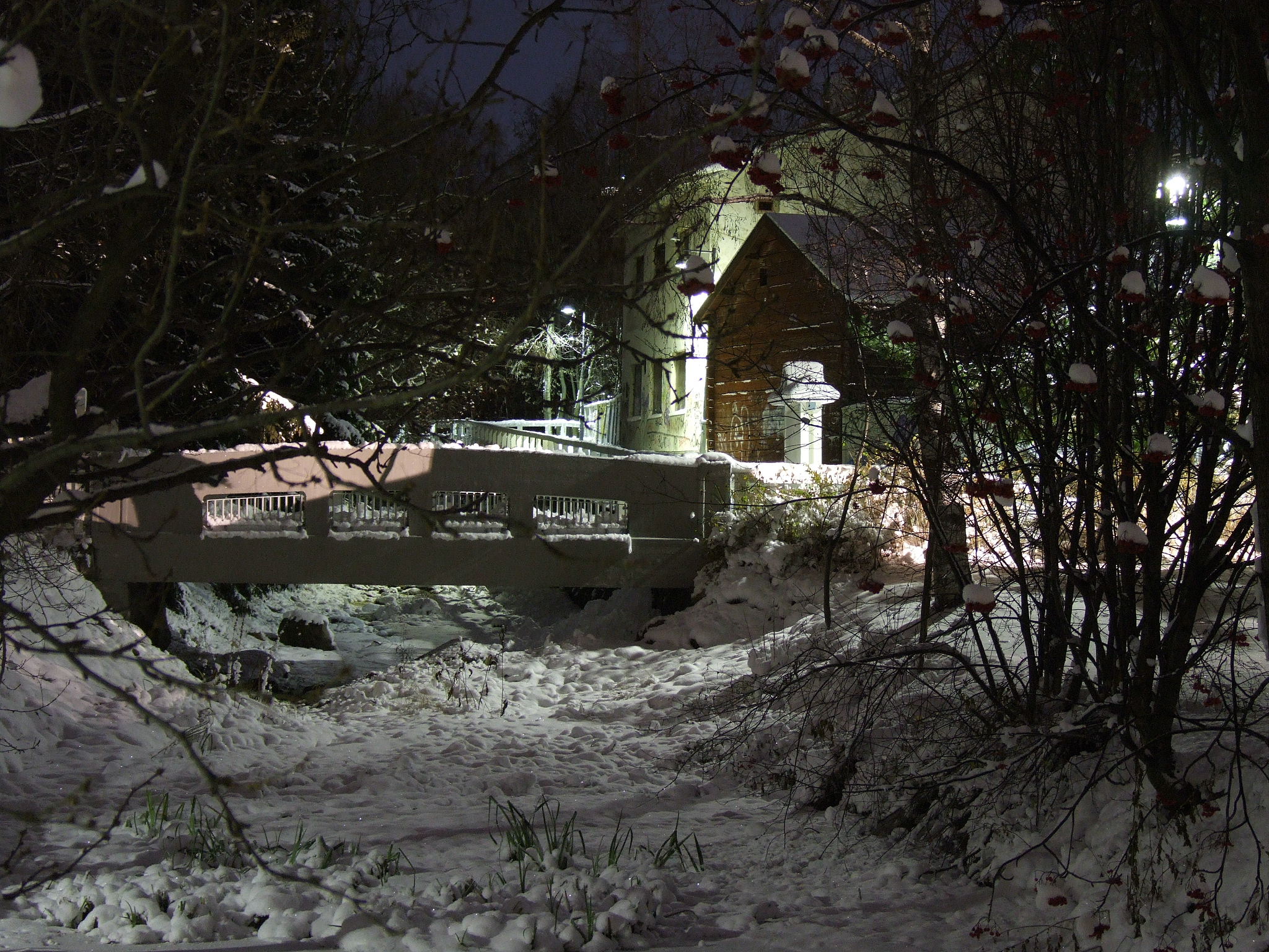 Hupisaaret Park at night (Oulu, Finland)